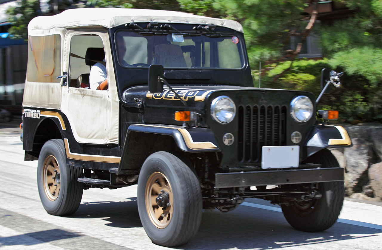 Mitsubishi Jeep J-55 Golden Black Version ( 2.7L Intercooler Turbo Diesel )